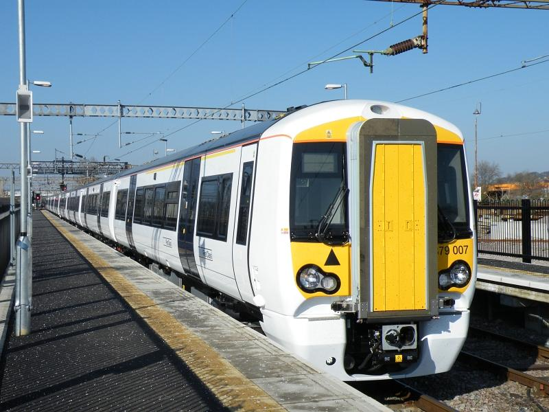 train on test run